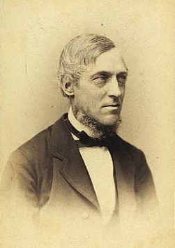 Werner Jaspar Andreas Ussing (1818-1887), Danish judge, national bank manager, politician, MP